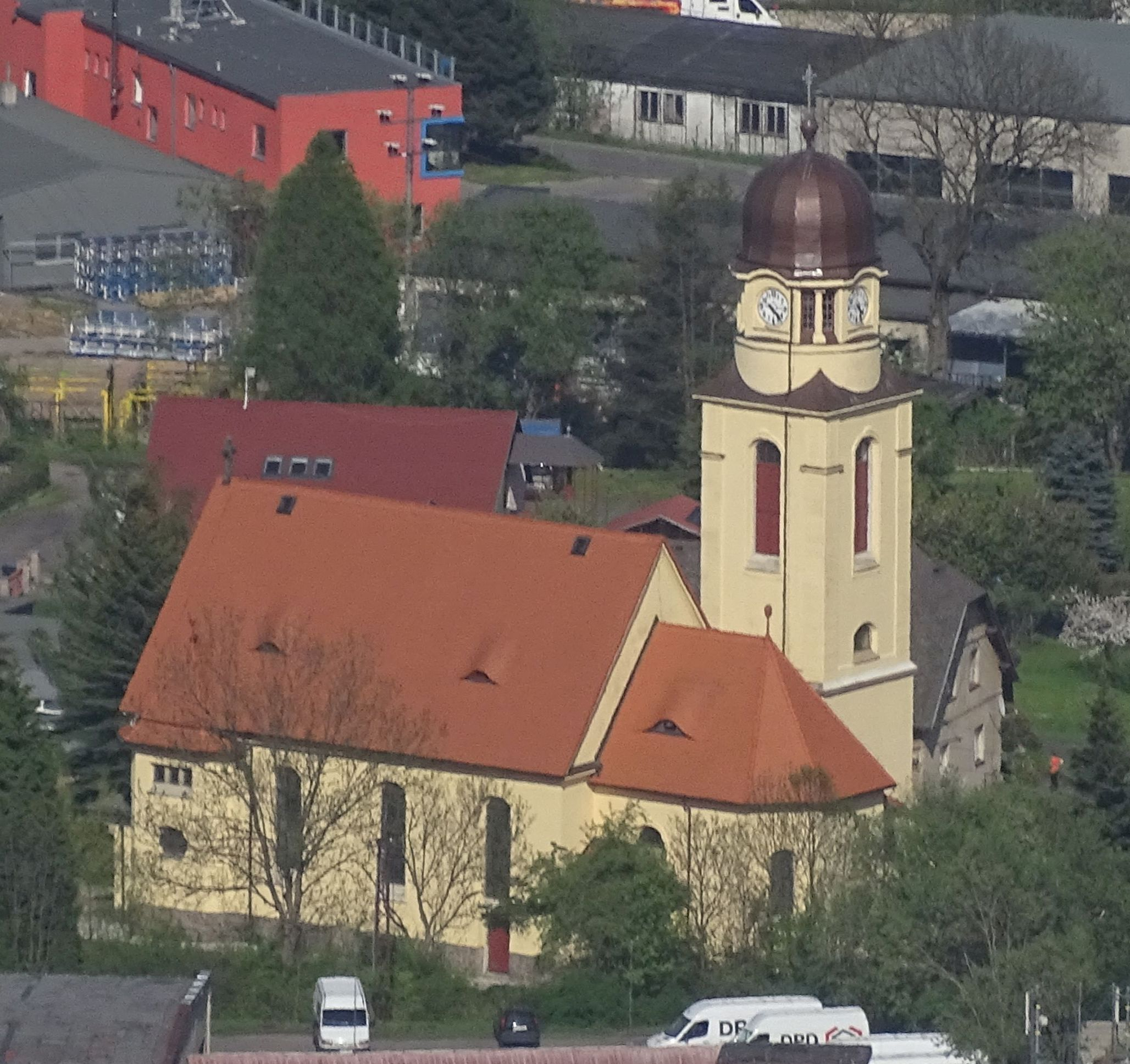 Liberec VIII-Dolní Hanychov, Liberec District, Liberec Region, Czech Republic. Church of Saint Boniface, seen from Ještěd hill.